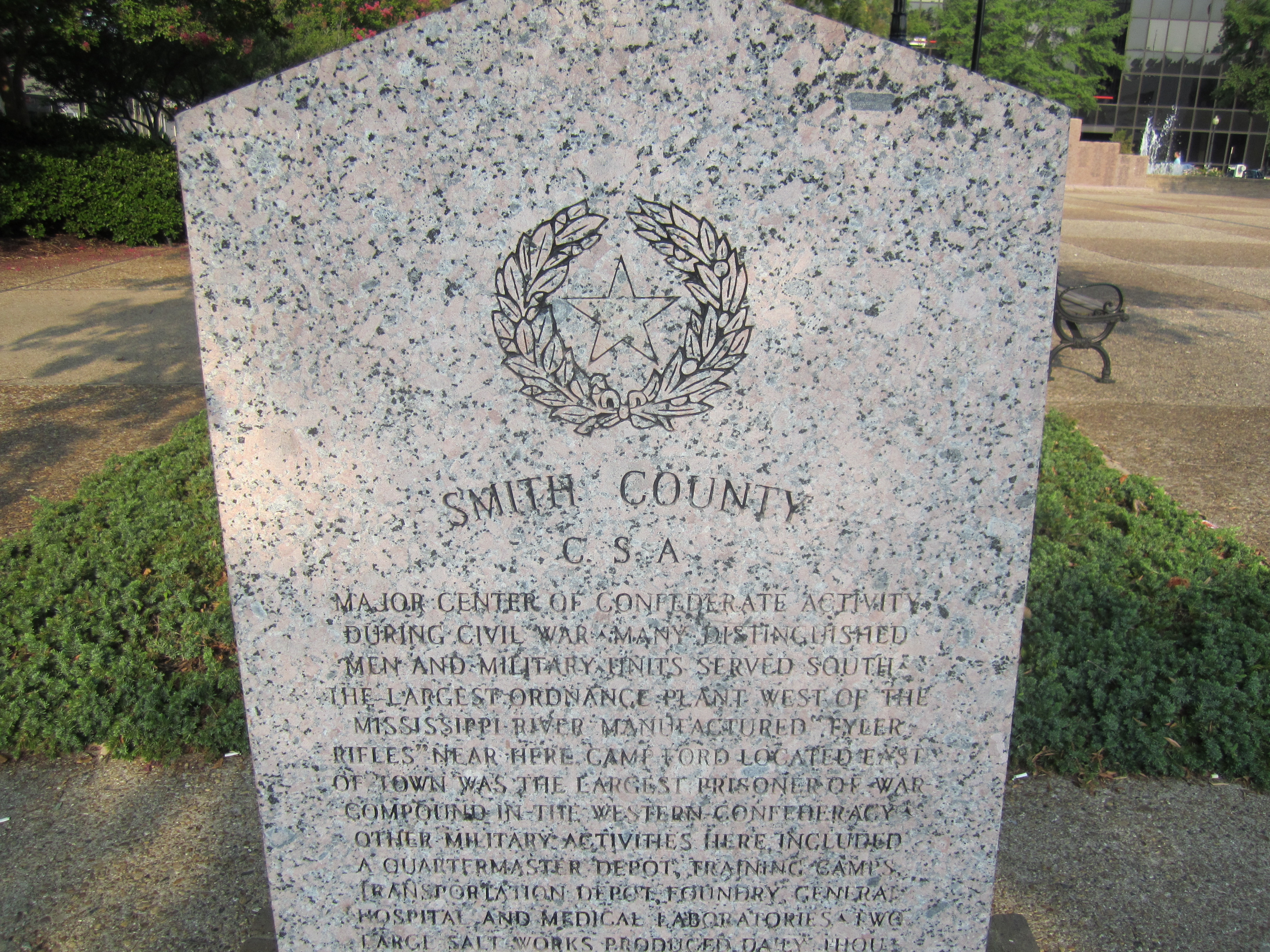 I took photo with Canon camera in Tyler, TX.